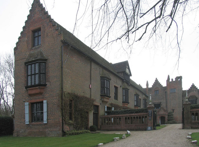 House next to church, Chenies, Bucks